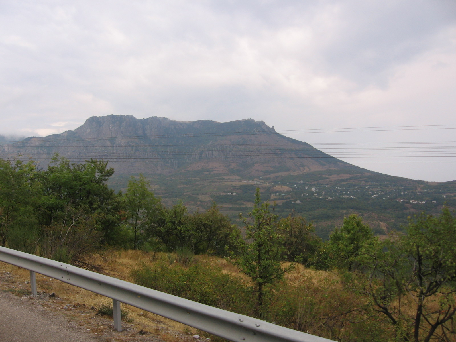 Southern Demerdji Mountain (1239 m) in Crimea. A stone visible on the right edge of the mountain is called "Head of Ekaterina". Luchistoye settlement is nearby. Picture taken by Cmapm through window of 52 Simferopol - Alushta - Yalta trolleybus.